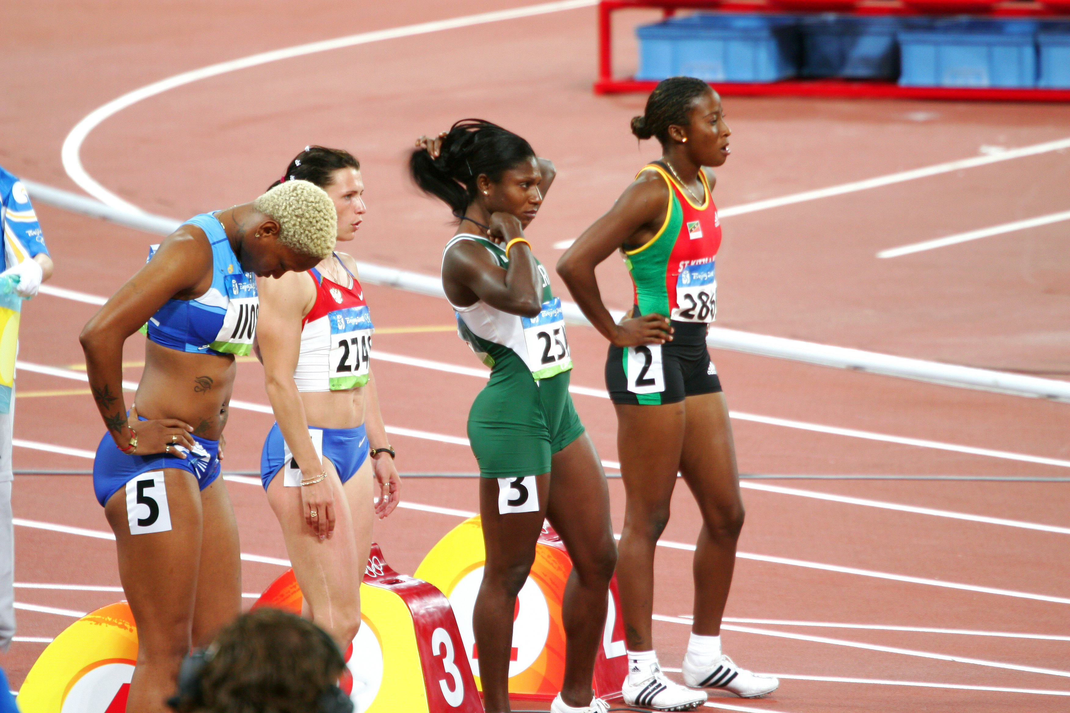 Competitors in the women's 100m heats inside the National Stadium. 2 : Virgil Hodge (Saint Kitts and Nevis), 3 : Ene Franca Idoko (Nigeria), 4 : Yevgeniya Polyakova (Russia), 5 : Jade Bailey (Barbados)